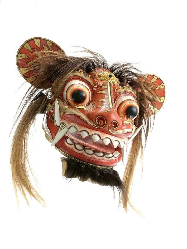 Colourfull wooden mask